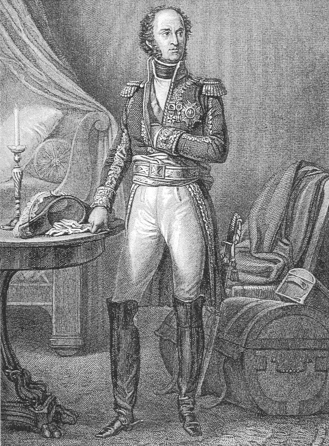 Guillaume Marie-Anne Brune, Napoleonic Marshal